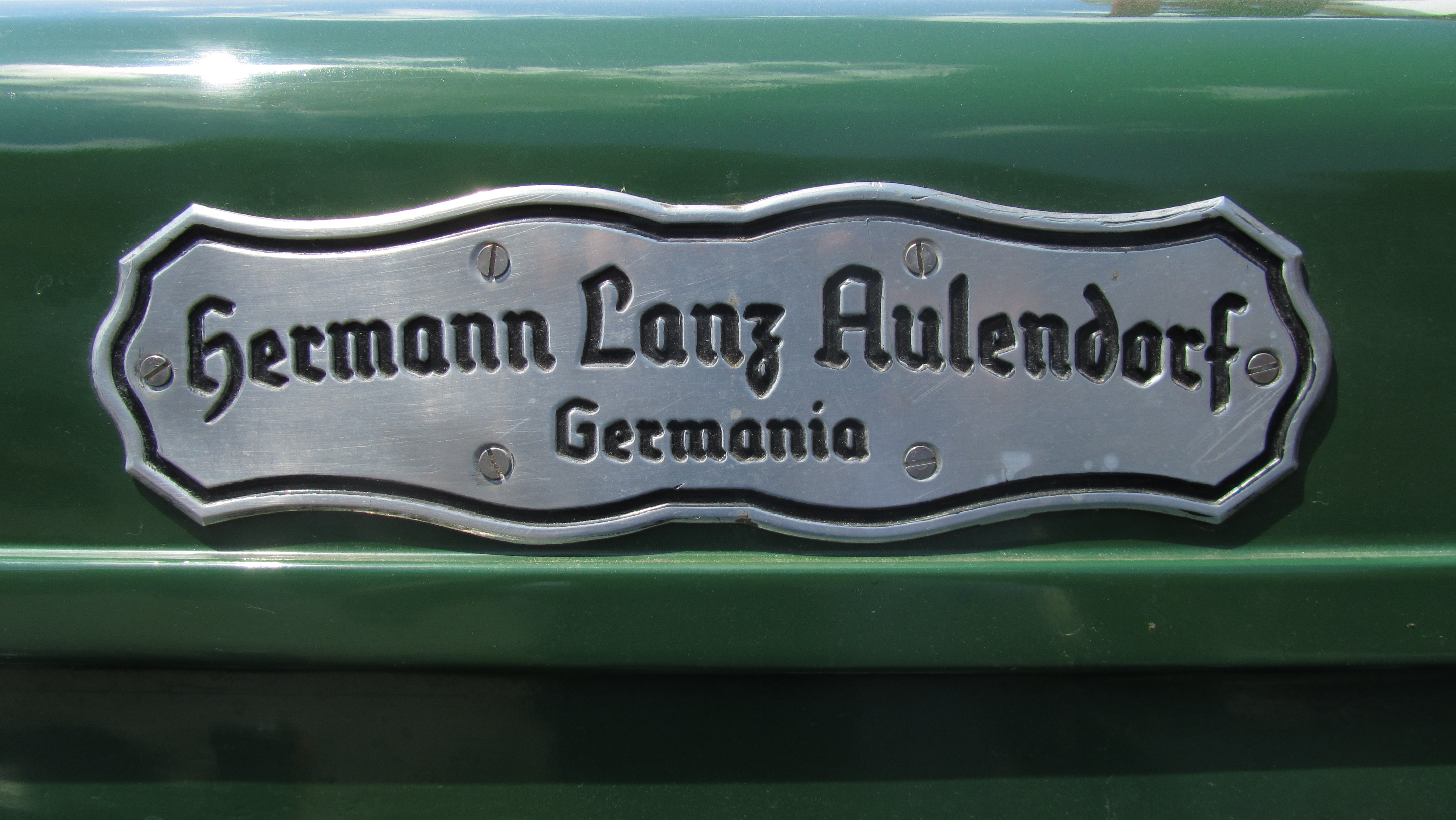 Sign with inscription "Hermann Lanz Aulendorf Germania"